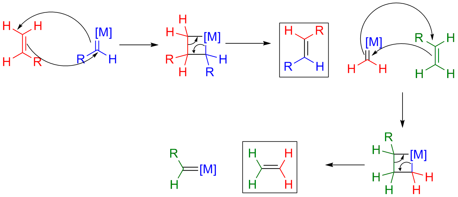 A ChemDraw image illustrating the general mechanism of olefin metathesis.